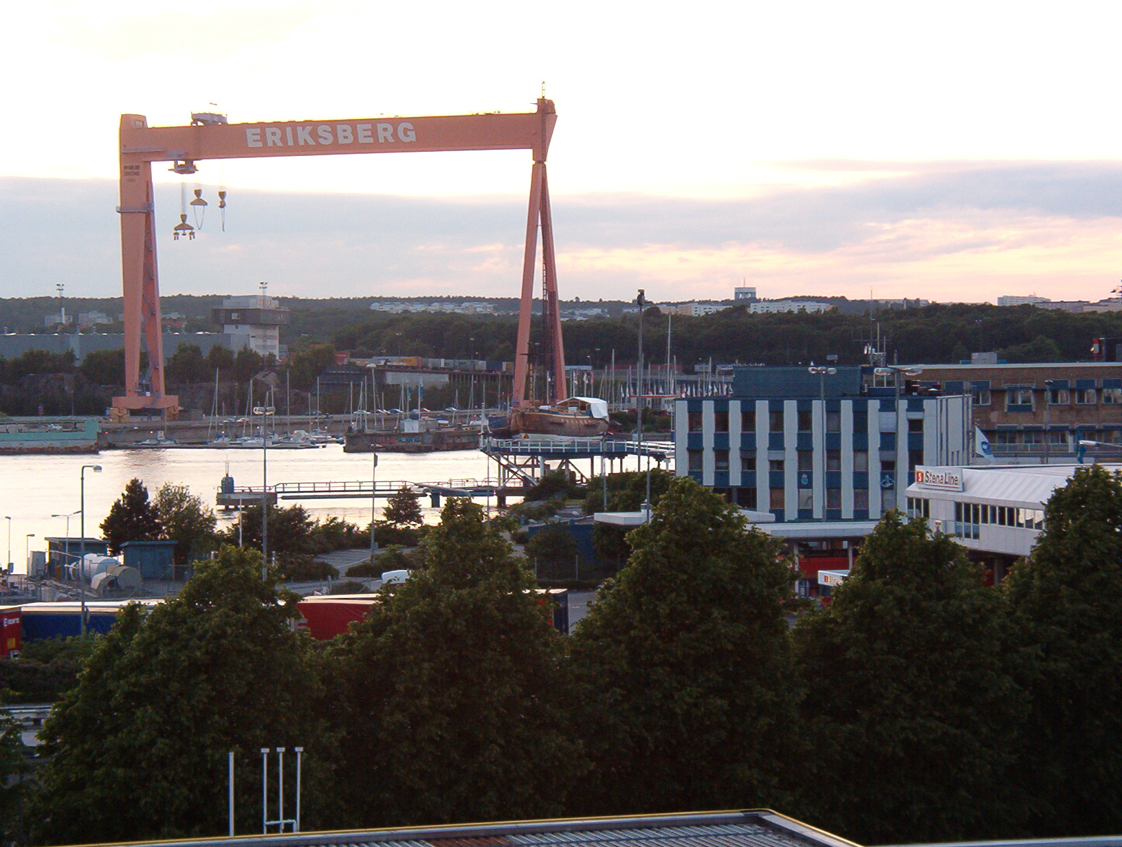 This image was taken from the apartment in the Majorna district in Göteborg in Sweden We see the Eriksberg Crane and at this spot a large passenger ferry would be situated had it been in. The image was taken in June 2003.